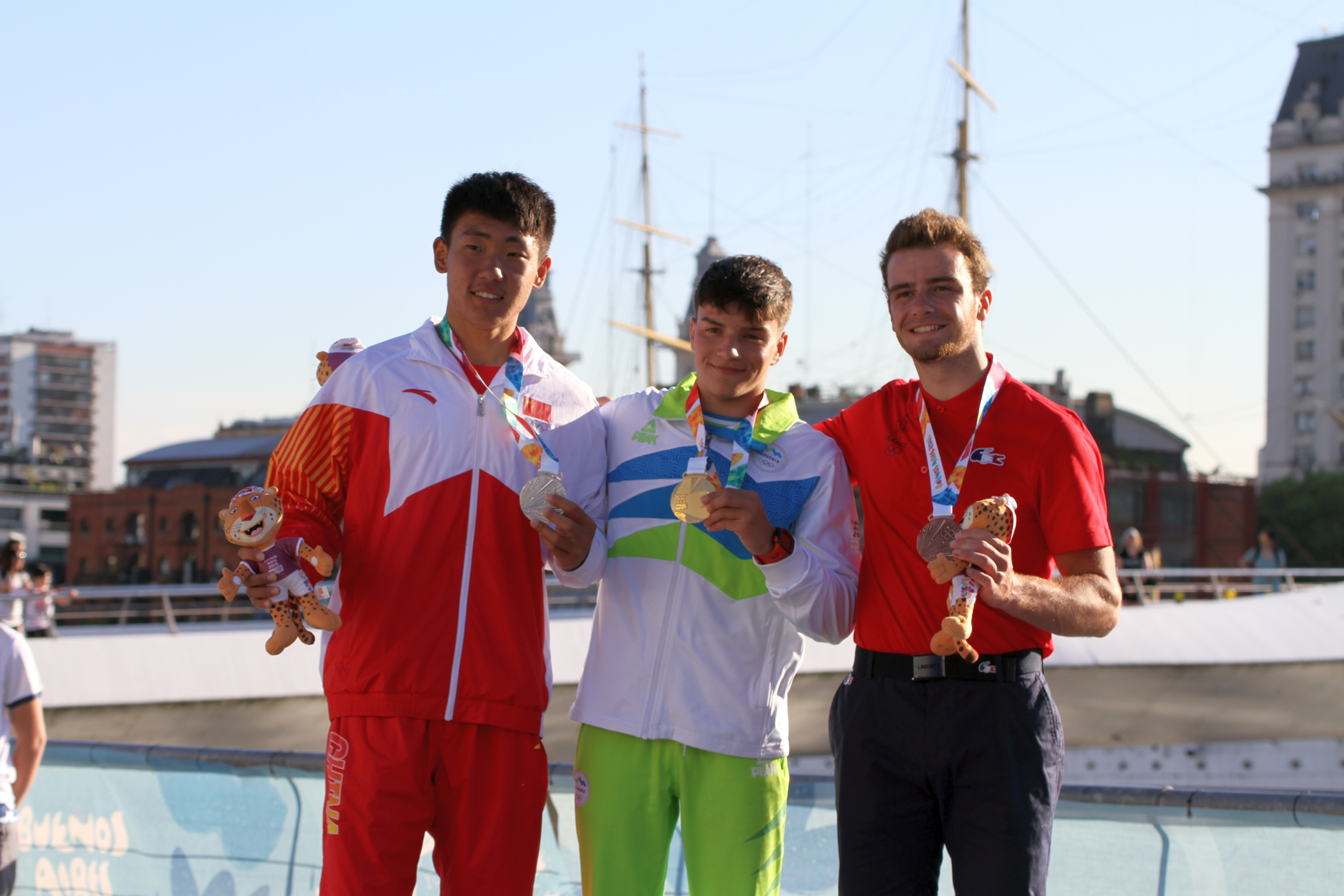 Canoeing at the 2018 Summer Youth Olympics at 16 October 2018 – Boys' K1 slalom Gold Medal Race: Lan Tominc (Slovenia, gold) - Guan Changheng (China, silver) - Tom Bouchardon (France, bronze)